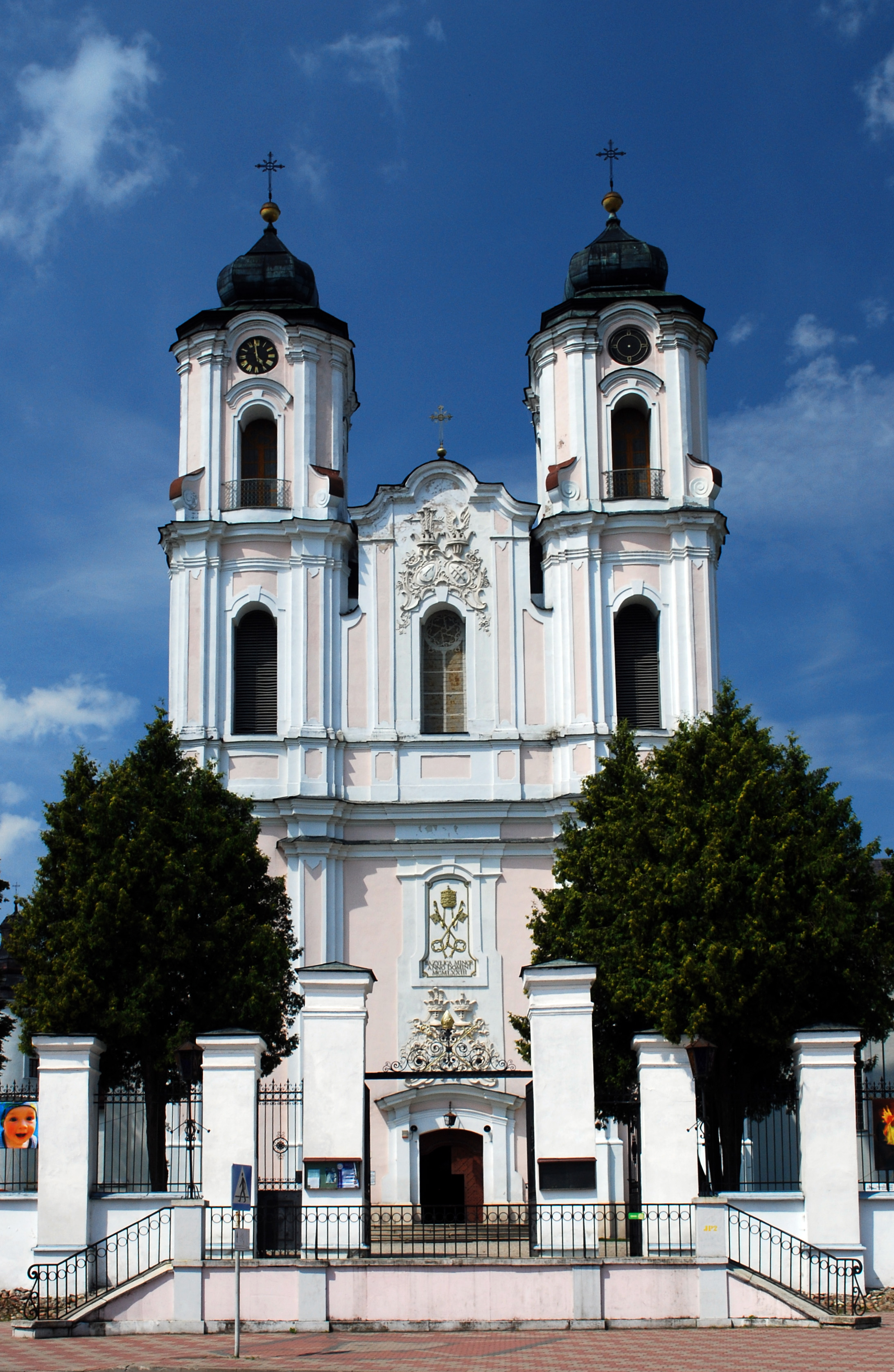 This photo from Podlaskie Voievodeship was taken during Polish Wikiexpedition 2009 set up by Wikimedia Polska Association. The making of this document was supported by Wikimedia Polska. Bazylika Nawiedzenia Najświętszej Maryi Panny w Sejnach - fasada od strony placu św. Agaty.